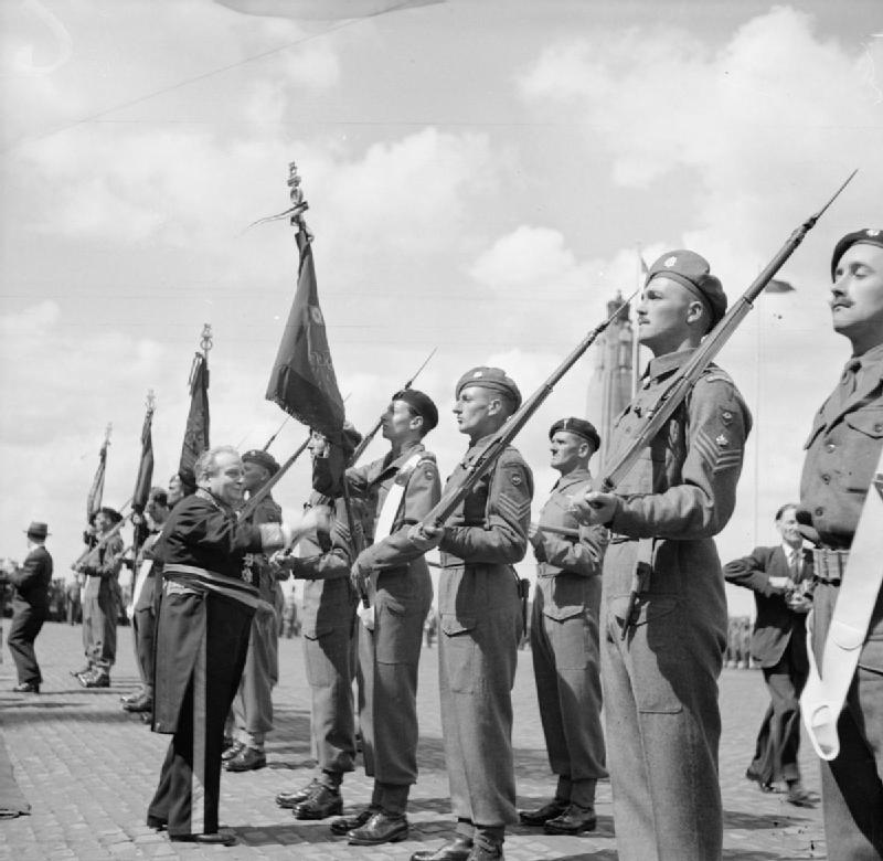 Allied Victory Parade in Brussels The Burgomaster of Brussels presents colours to the Guards Armoured Division during the victory parade.